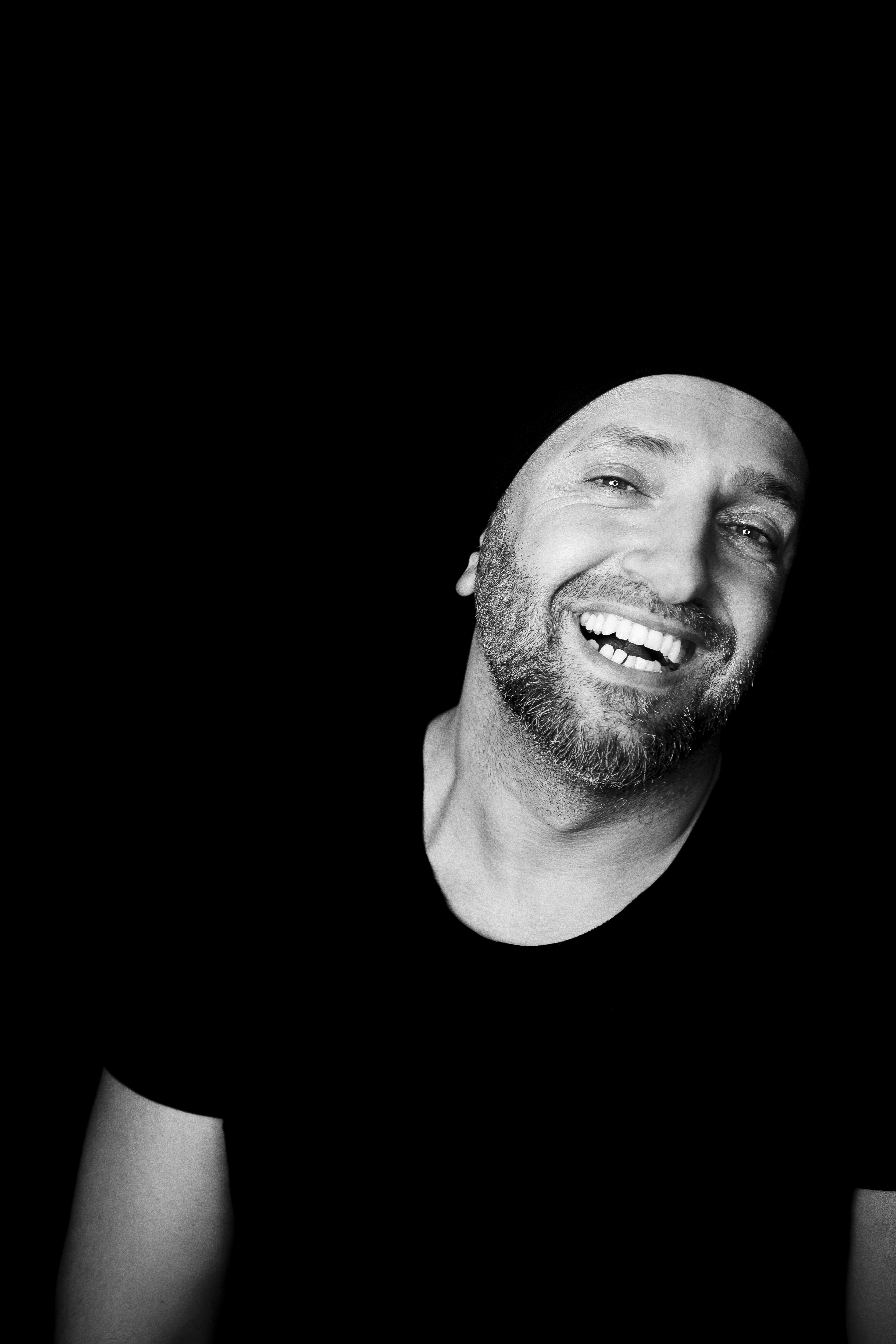 Vienna Standup comedian Jack Nuri